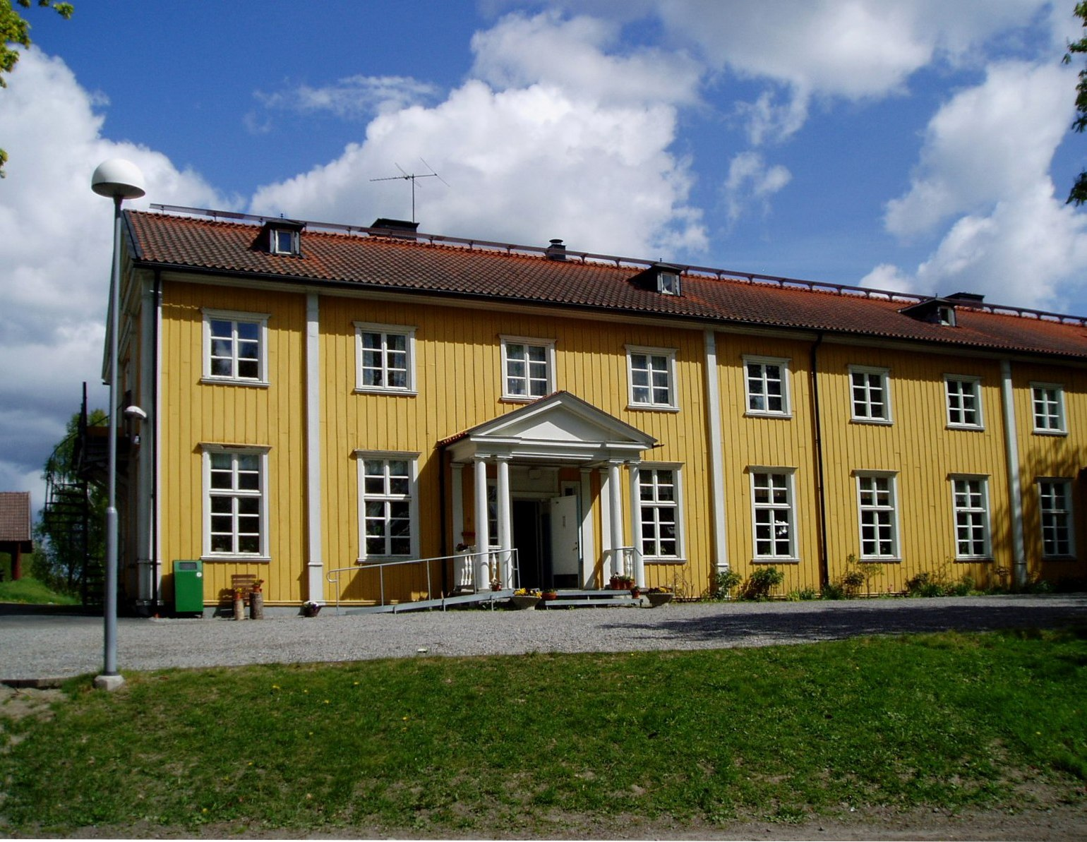 School for agriculture, Haninge municipality, Sweden